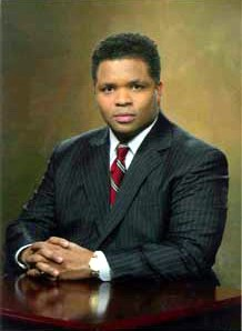 Jesse Jackson, Jr.'s original congressional photo